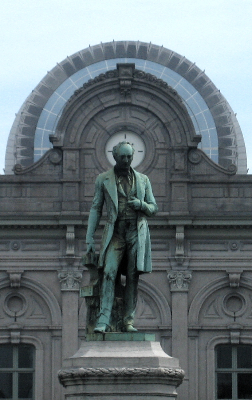 Place du Luxembourg, European Quarter of Brussels (Belgium). View of the European Parliament (western side), including converted station entrance in front) with statue of John Cockerill in foreground.